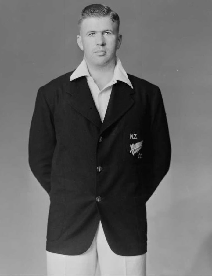 Portrait of New Zealand cricketer Jack Cowie.